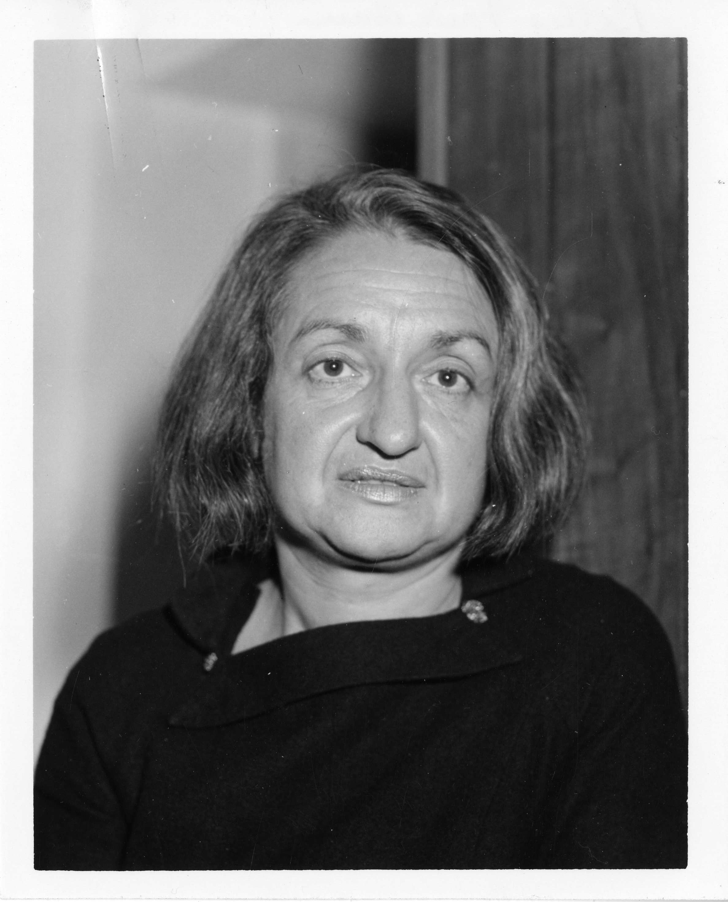 Description: Betty Naomi Goldstein Friedan (1921-2006) graduated summa cum laude from Smith College and had begun graduate study in psychology at the University of California when she transferred her energies toward political activism, the cause of women's rights, and eventually publishing such works as The Feminine Mystique (1963), informed by her critique of Freudian theory. Creator/Photographer: Unidentified photographer Medium: Black and white photographic print Persistent URL: [1] Repository: Smithsonian Institution Archives Collection: Science Service Records, 1902-1965 (Record Unit 7091) - Science Service, now the Society for Science & the Public, was a news organization founded in 1921 to promote the dissemination of scientific and technical information. Although initially intended as a news service, Science Service produced an extensive array of news features, radio programs, motion pictures, phonograph records, and demonstration kits and it also engaged in various educational, translation, and research activities. Accession number: SIA2008-1712